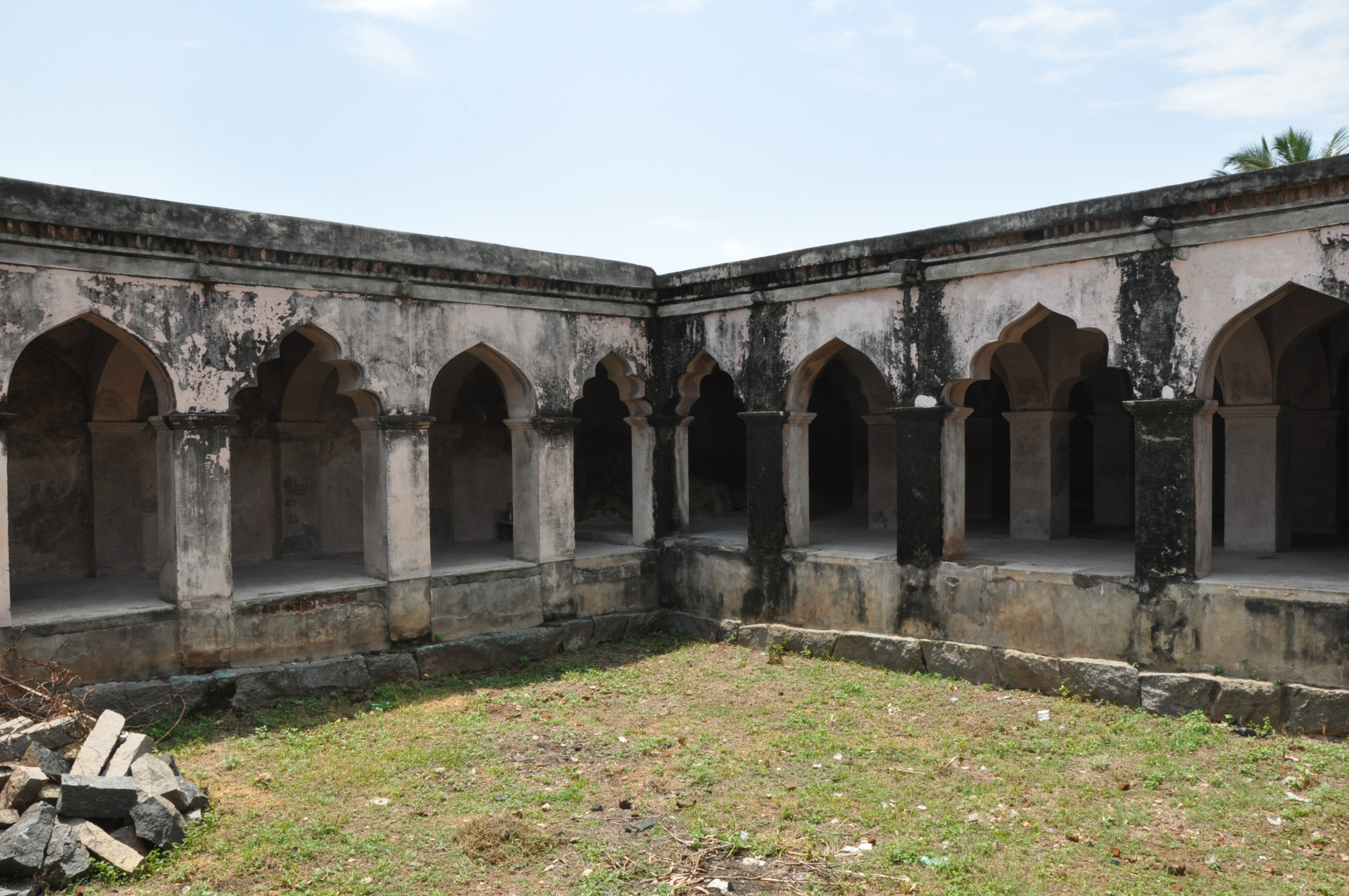 "Arch type of Consructions inside the Fort of Attur". Location: Attur,Salem district,Tamil Nadu, India.